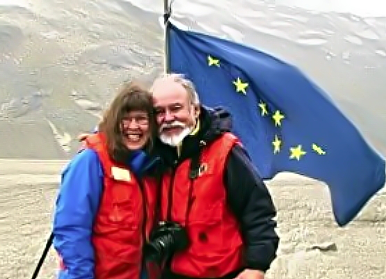 We helicoptered to Denver Glacier, atop Skagway Alaska. A timer photo commemorates our "conquest."